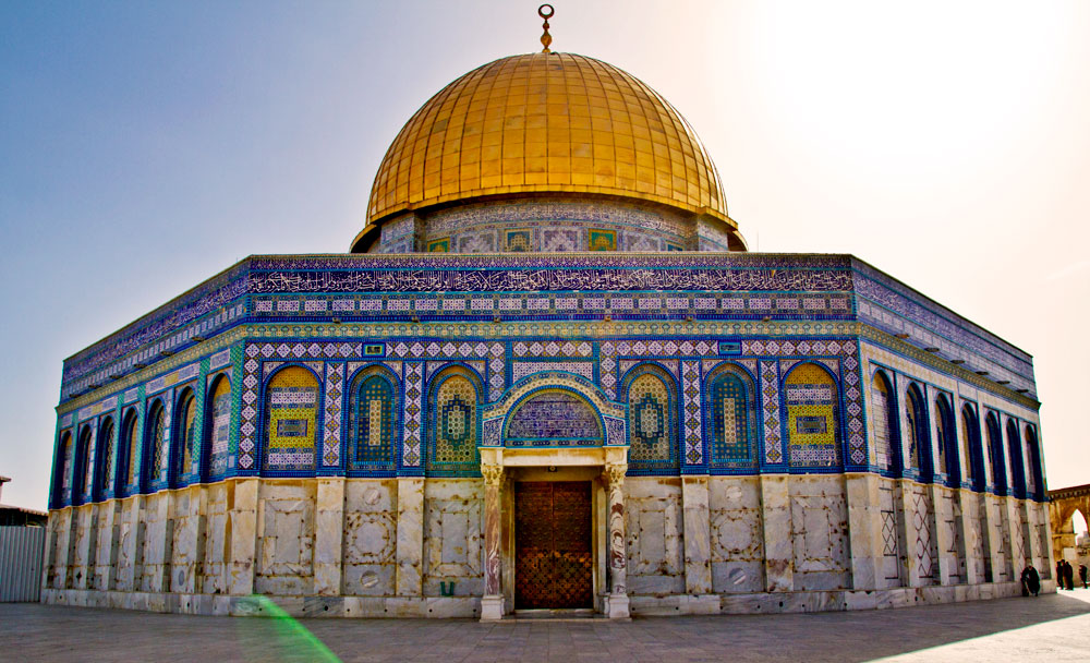 From the Temple Mount